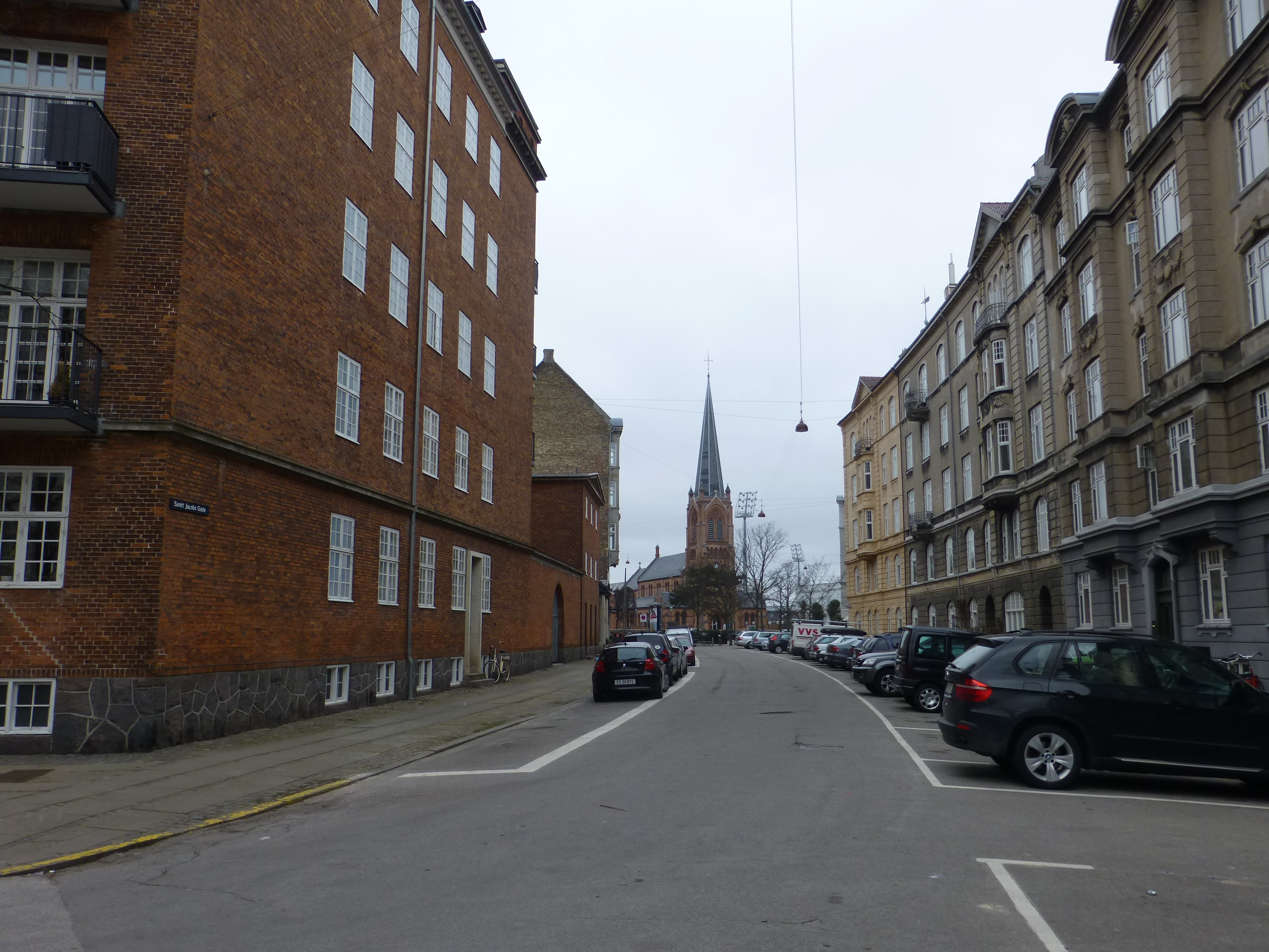 The street Sankt Jakobs Gade in Østerbro in Copenhagen. At the end of the street is Sankt Jakobs Kirke.